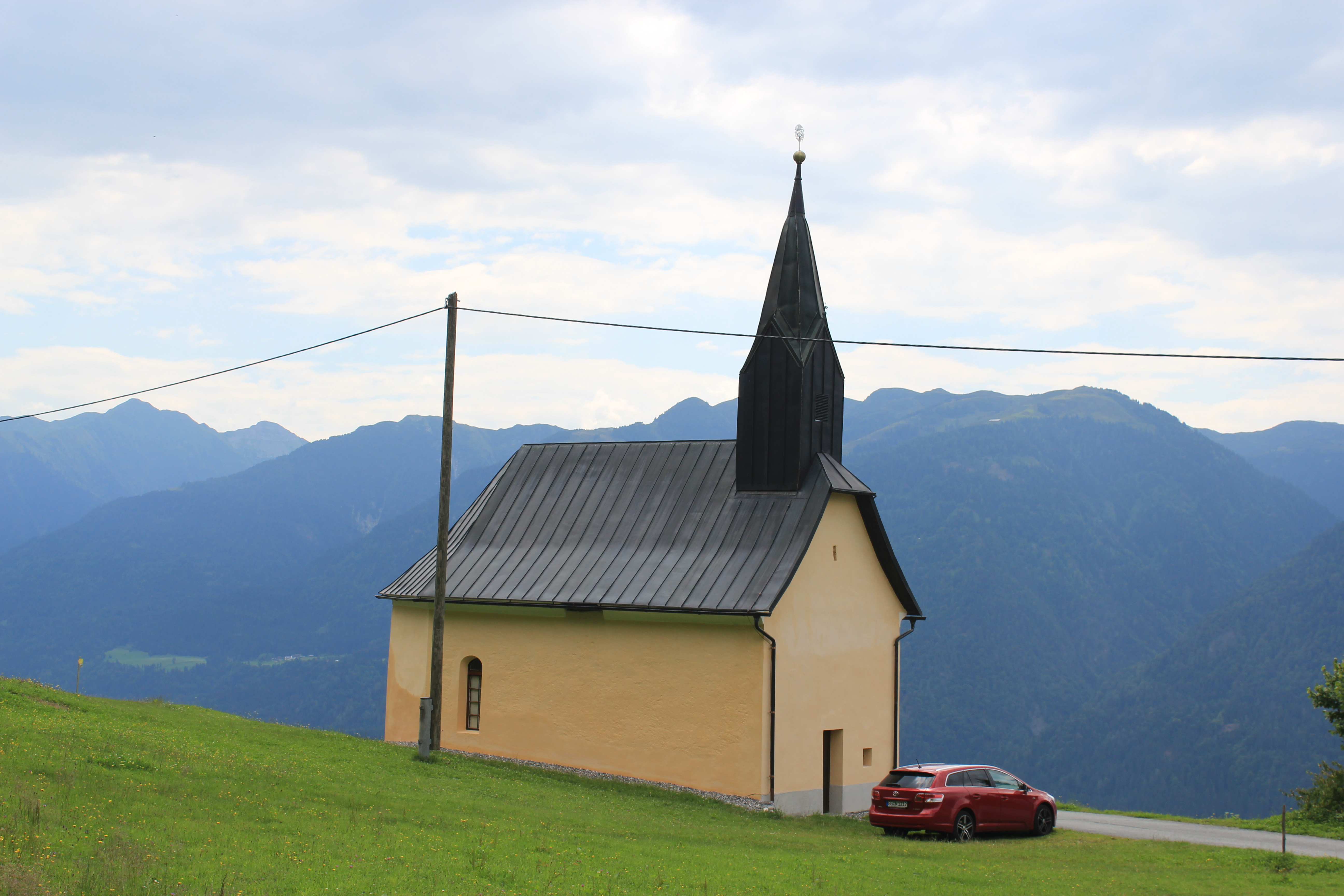 Subsidiary church Goldberg in the community Dellach